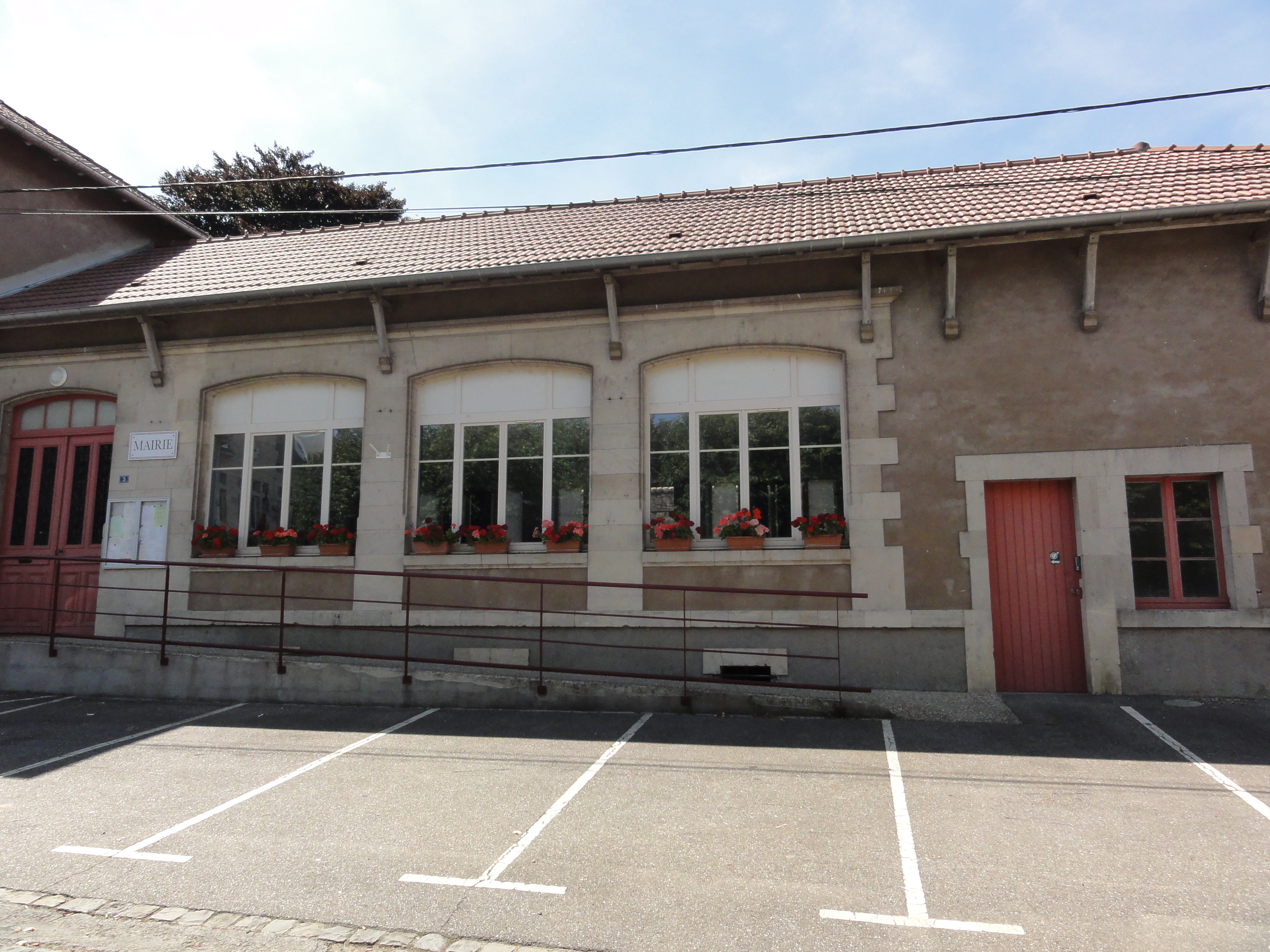 Billy-sous-Mangiennes (Meuse) mairie